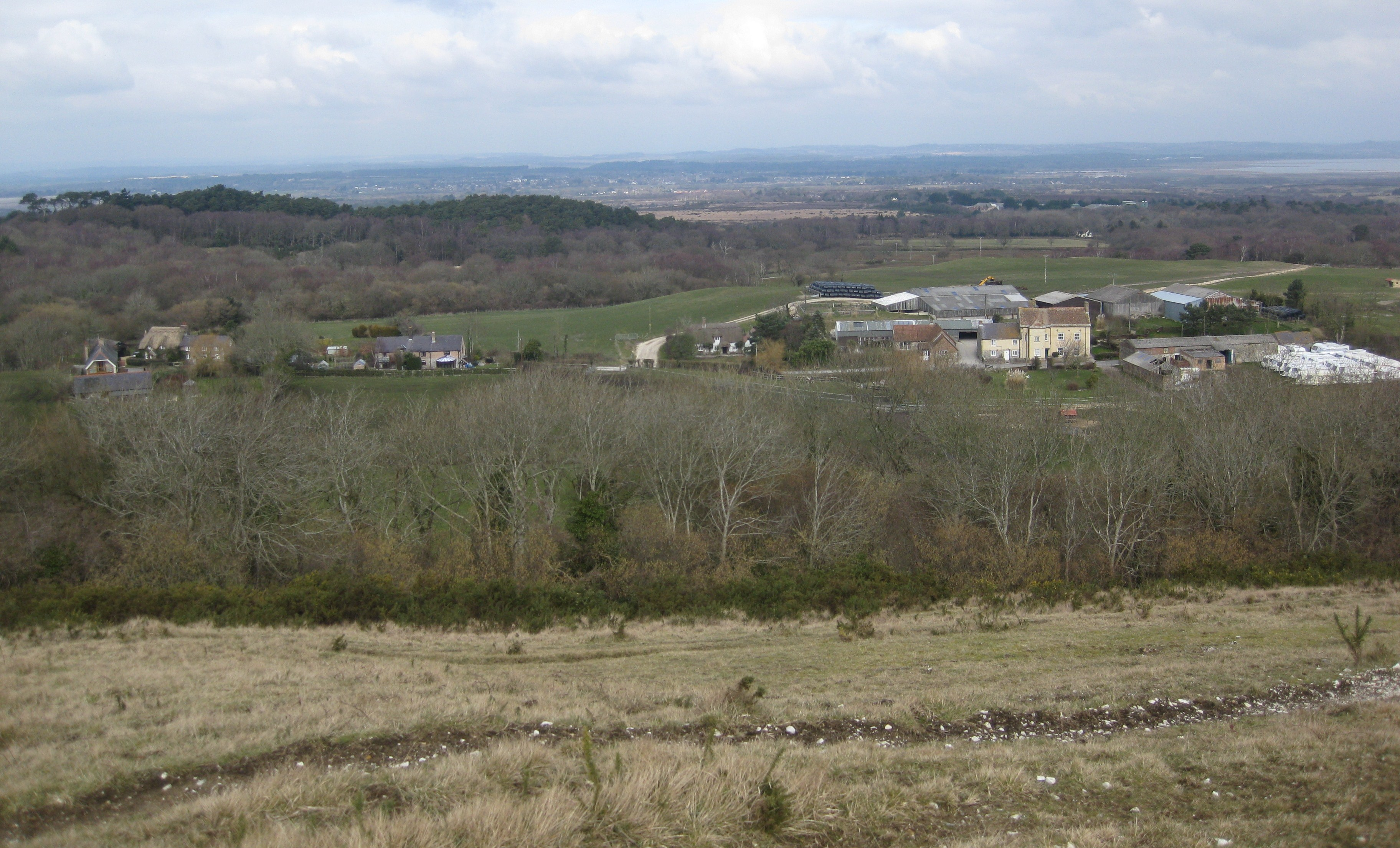 East Creech near Wareham The hamlet of East Creech contains a collection of farm buildings and small cottages. In the distance is the Town of Wareham and to the top right can be seen Wareham Channel running in from Poole Harbour.